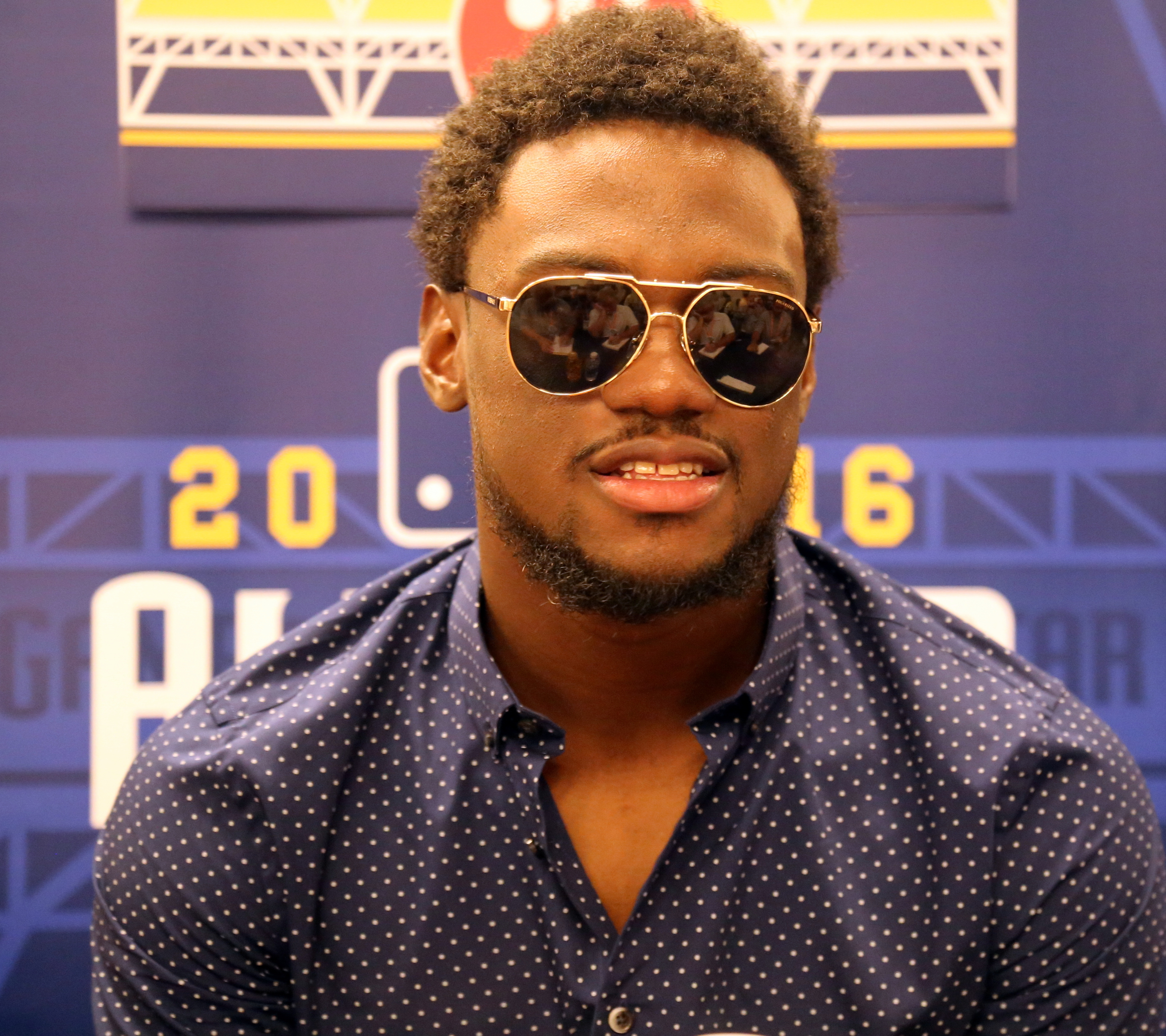 Phillies outfielder Odubel Herrera talks to reporters at 2016 All-Star Game availability.